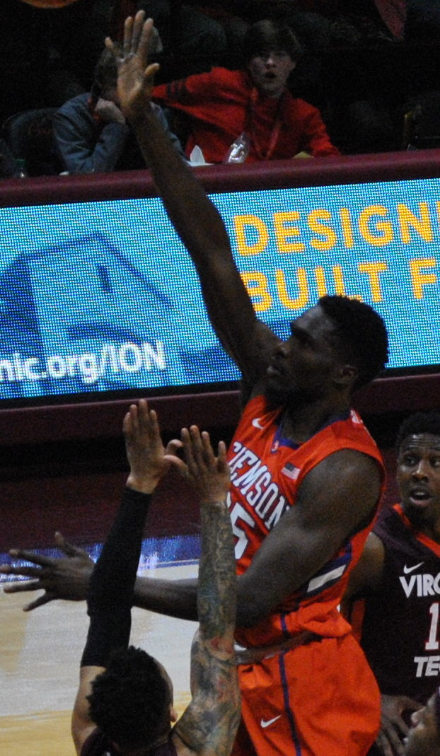 Landry Nnoko plays tall around the basket